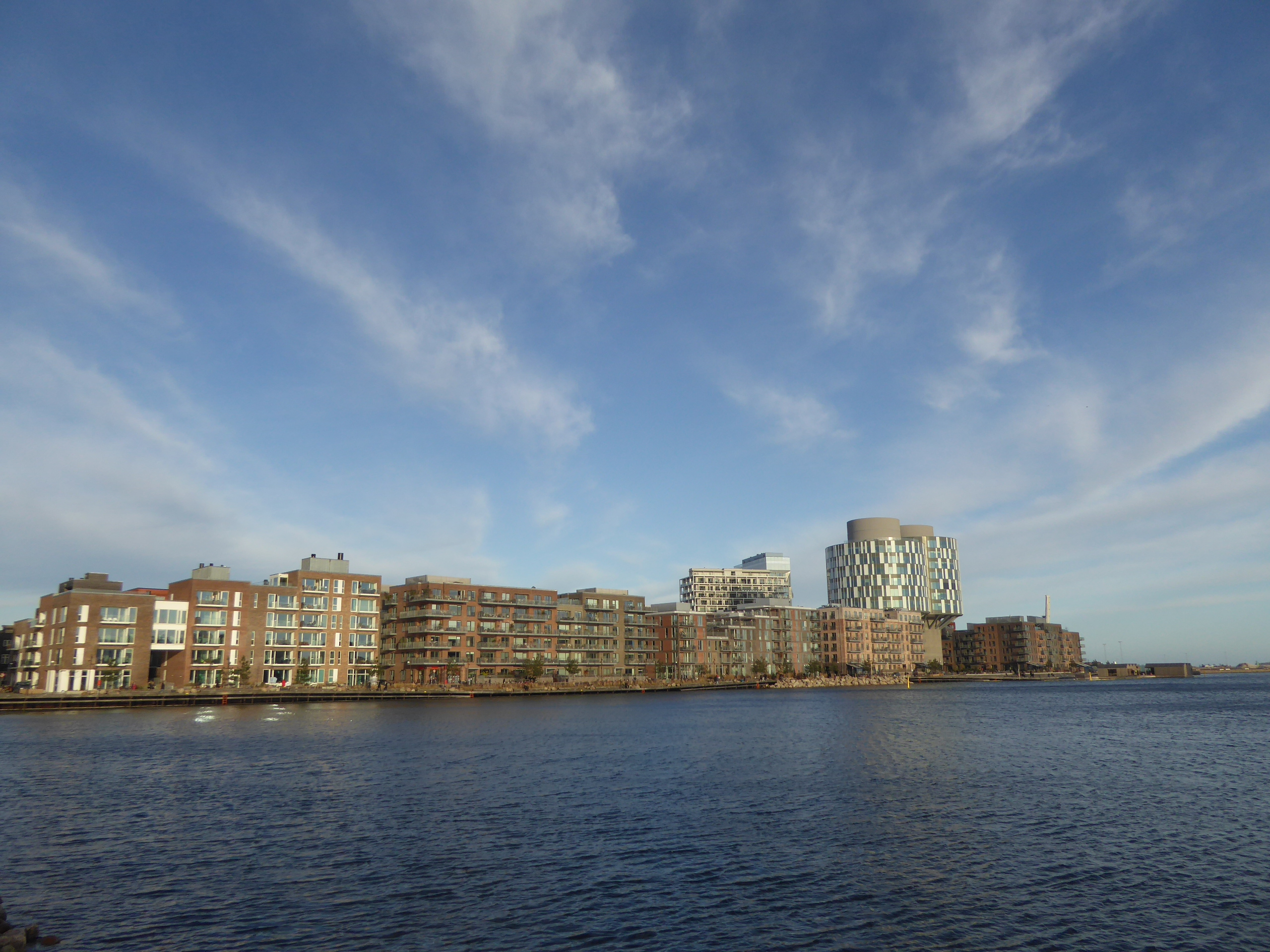 The street and quay Sandkaj at Nordbassinet in Nordhavn in Copenhagen.